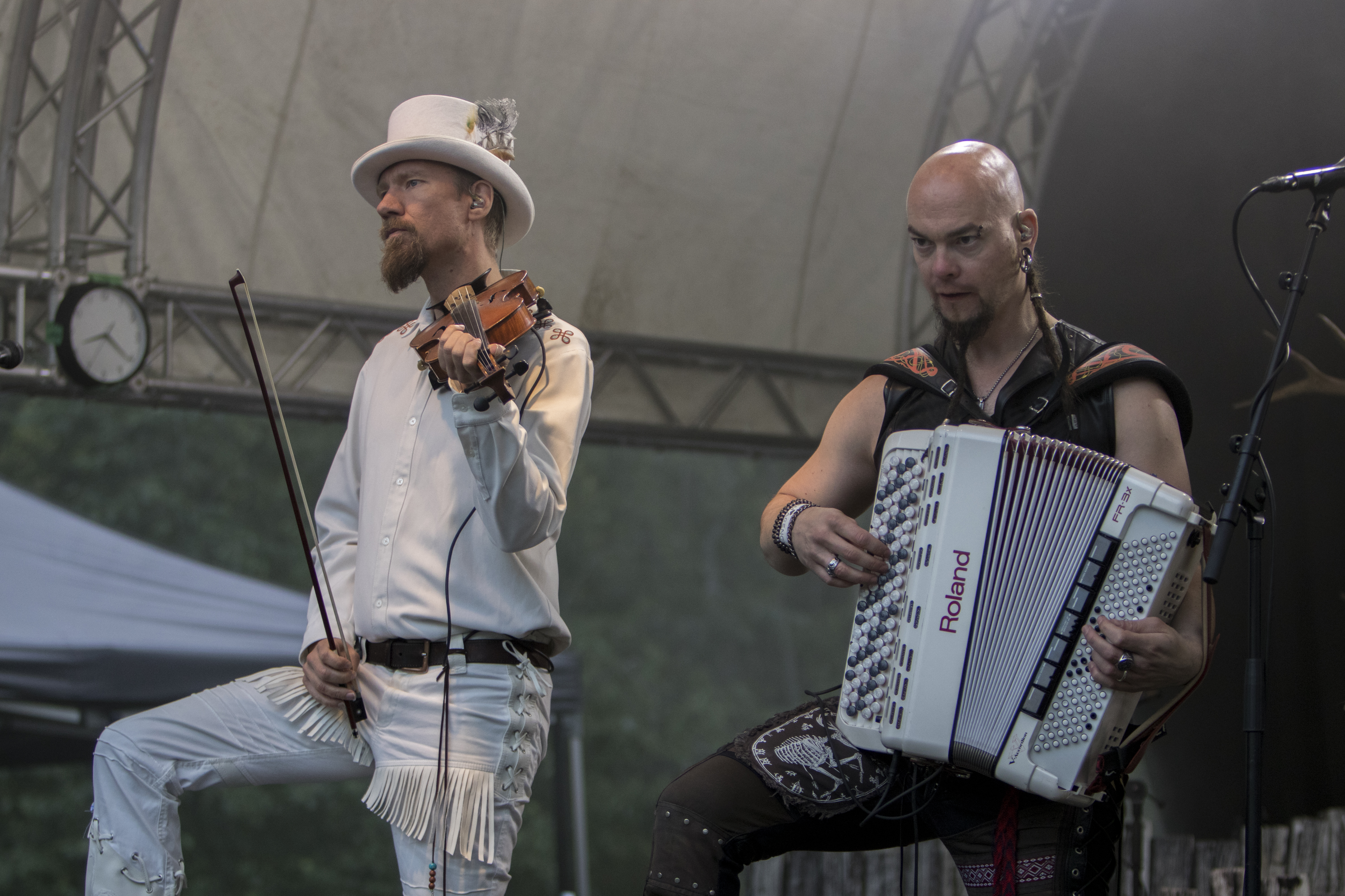 Korpiklaani at the Saarihelvetti festival 2019, Tampere (Finland)